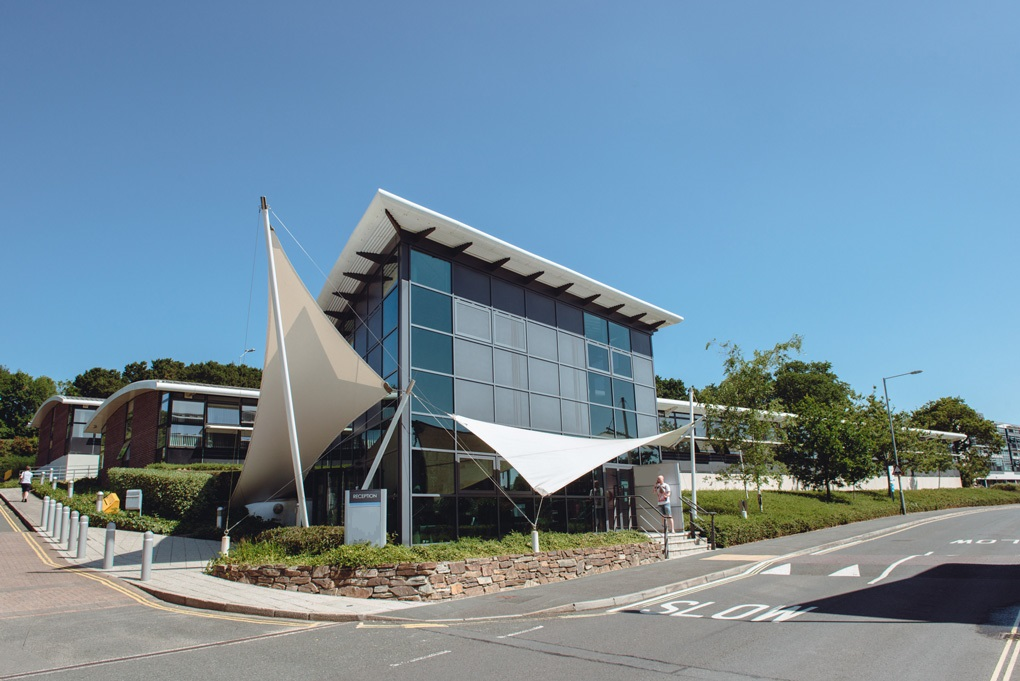 Plymouth Science Park Where businesses come to grow